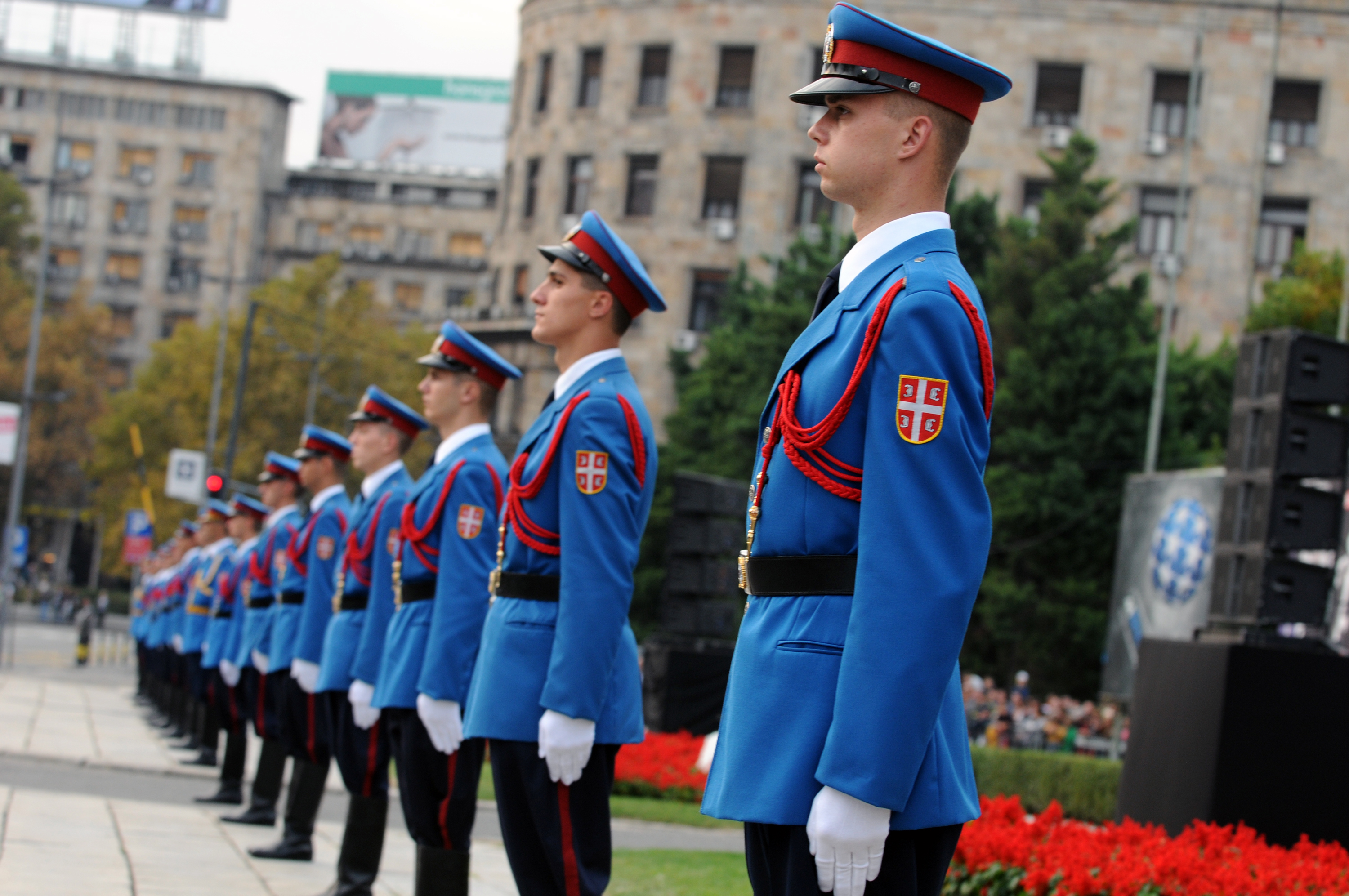 Members of Serbia's armed forces honor officer cadets from Serbia's Military Academy taking part in a graduation ceremony in front of the National Assembly of the Republic of Serbia in Belgrade, Serbia, on Sept. 11, 2010, attended by Air Force Gen. Craig McKinley, the chief of the National Guard Bureau, Army Maj. Gen. Gregory Wayt, the adjutant general of the Ohio National Guard and other Guard leaders. Serbia is Ohio's partner in the 62-nation National Guard Partership Program. (U.S. Army photo by Staff Sgt. Jim Greenhill) (Released)